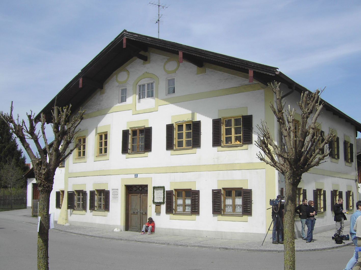 The Mauthaus in Marktl am Inn in the South-East of Bavaria, the house where Joseph Ratzinger (Pope Benedict XVI.) was born in 1927.